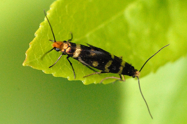 Micropterix aureatella from Commanster, Belgian High Ardennes .